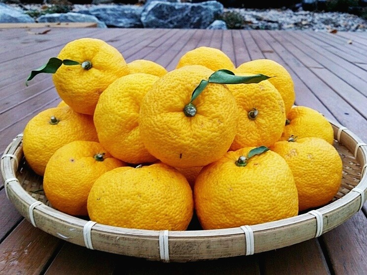 yuja (Citrus junos)